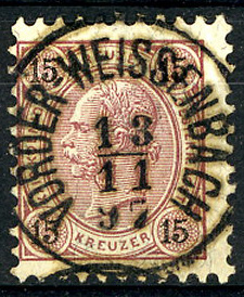 15 kreuzer 1890 issue - Vorder-Weissenbach Upper Austria